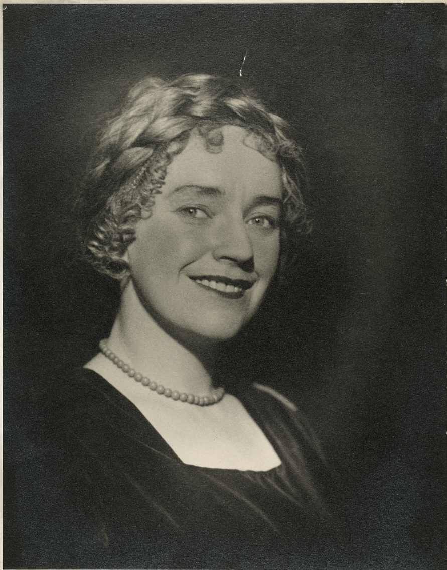 Depicted person: Ragnhild Hald – Norwegian actress